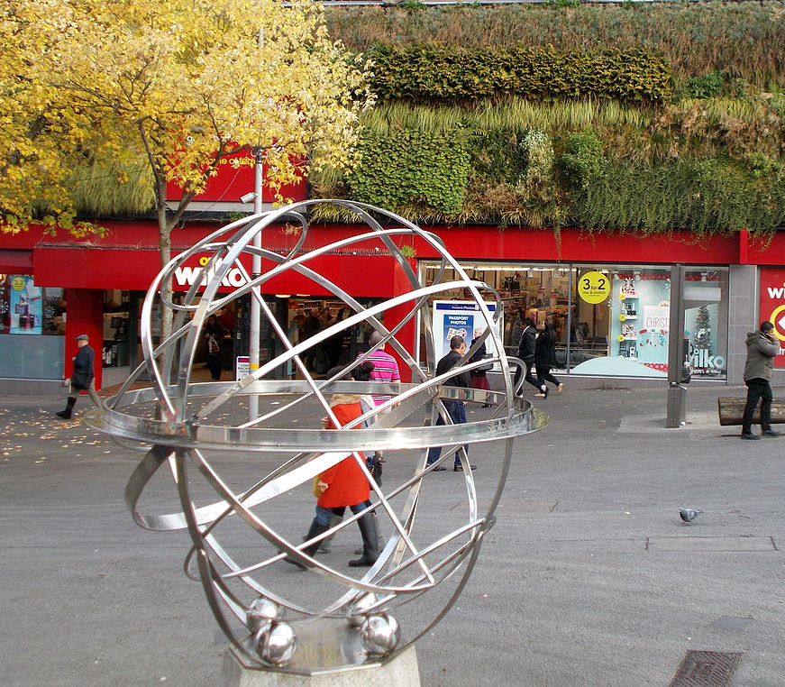 Armillary in Trinity Square, Sutton, Surrey, Greater London